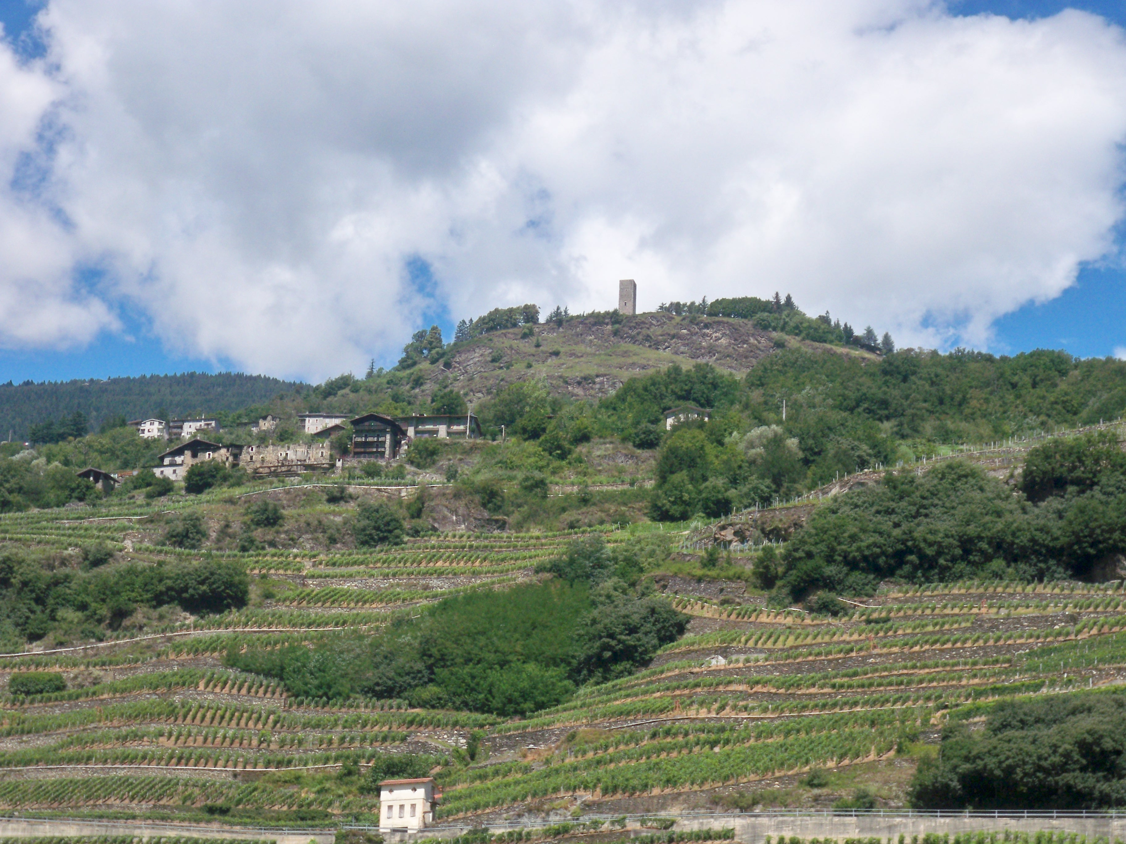 Terraced fields in Valtellina